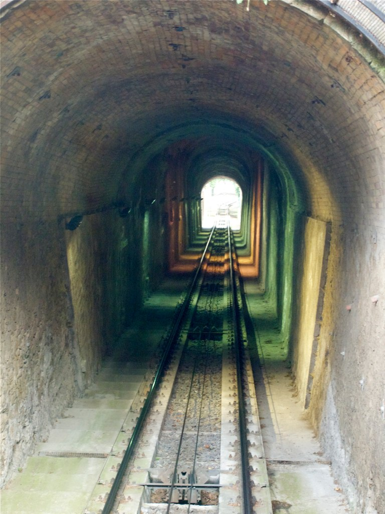 Funicolare di Orvieto. Looking downwards from the top.